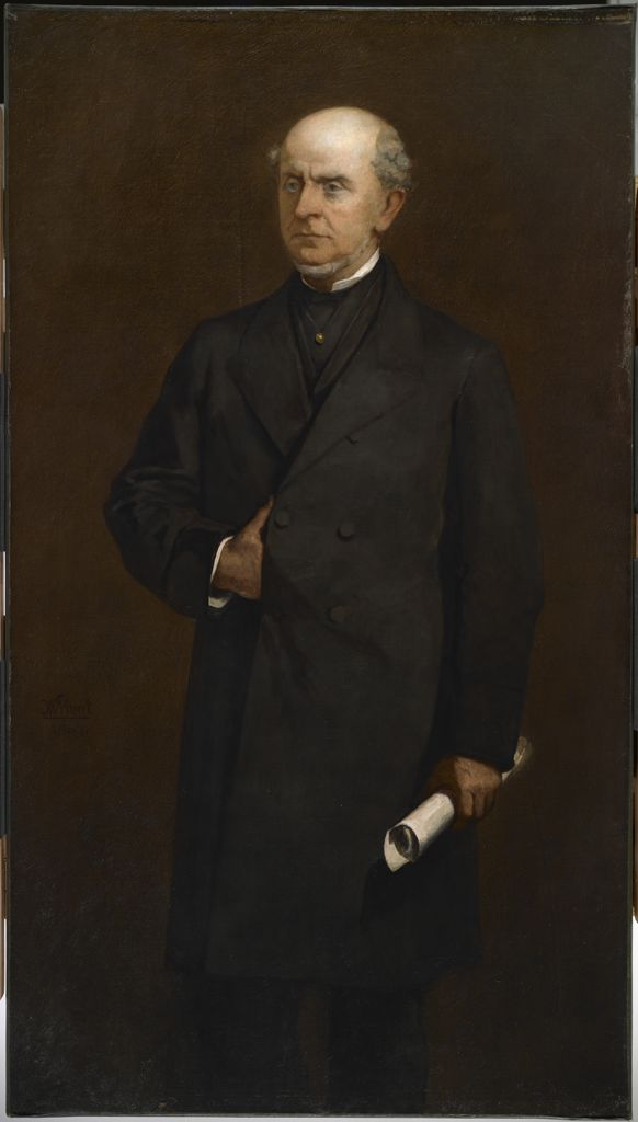 "Charles Francis Adams," oil on canvas, by the American artist William Morris Hunt. 59 3/8 in. x 34 1/4 in. Harvard University Portrait Collection, gift of C. F. Adams Jr. and his brothers. Courtesy of the President and Fellows of Harvard College.